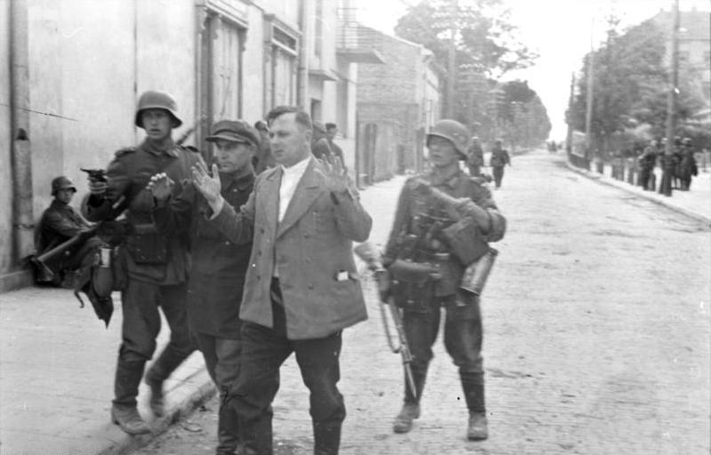 Ukraine, German soldiers with prisoners